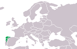 Distribution of Chioglossus_lusitanica, based on Nöllert/Nöllert: "Die Amphibien Europas" (More certainly Chioglossa lusitanica)